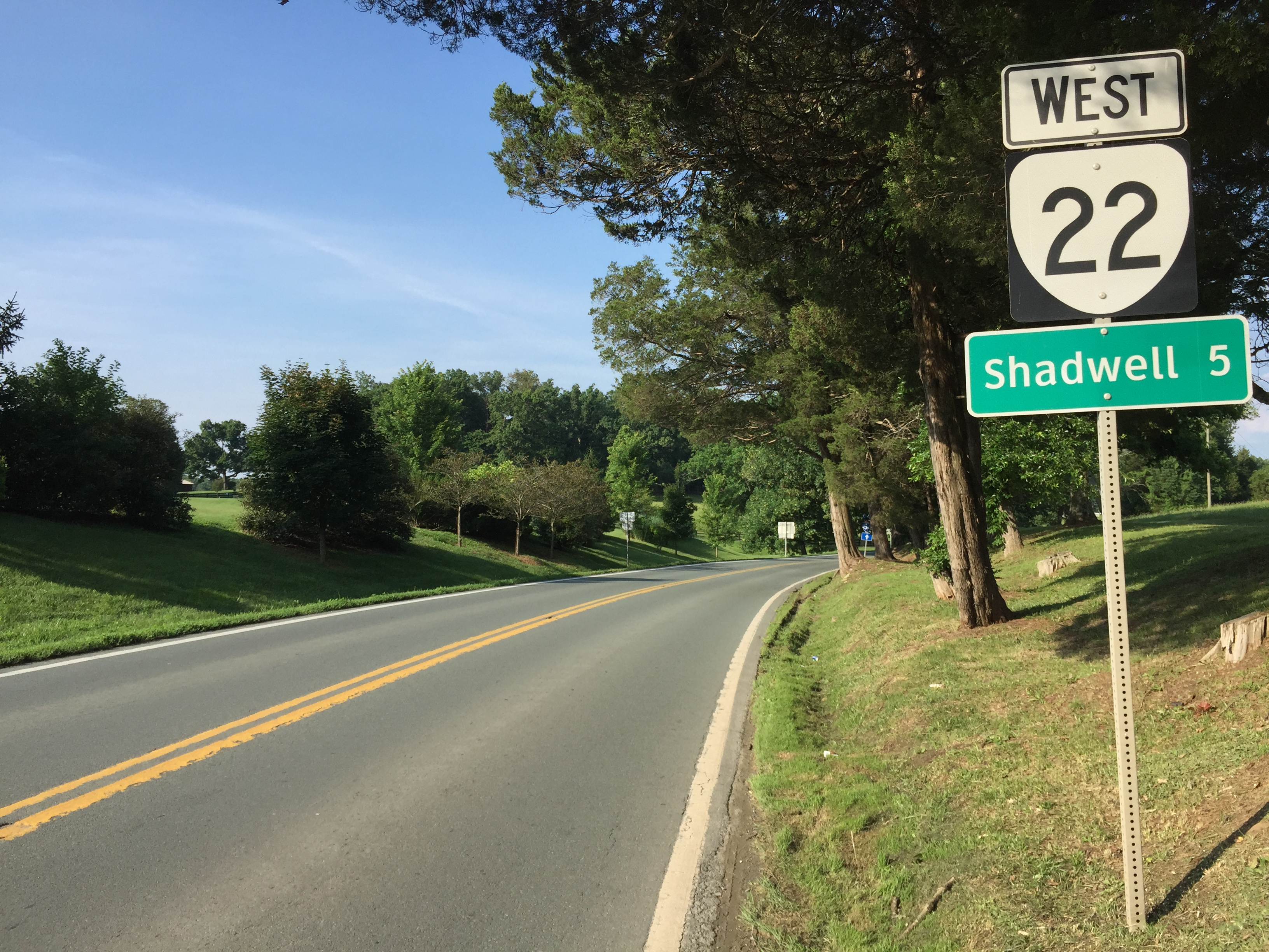 View west along Virginia State Route 22 (Louisa Road) just west of Virginia State Route 231 (Gordonsville Road) in Cismont, Albemarle County, Virginia